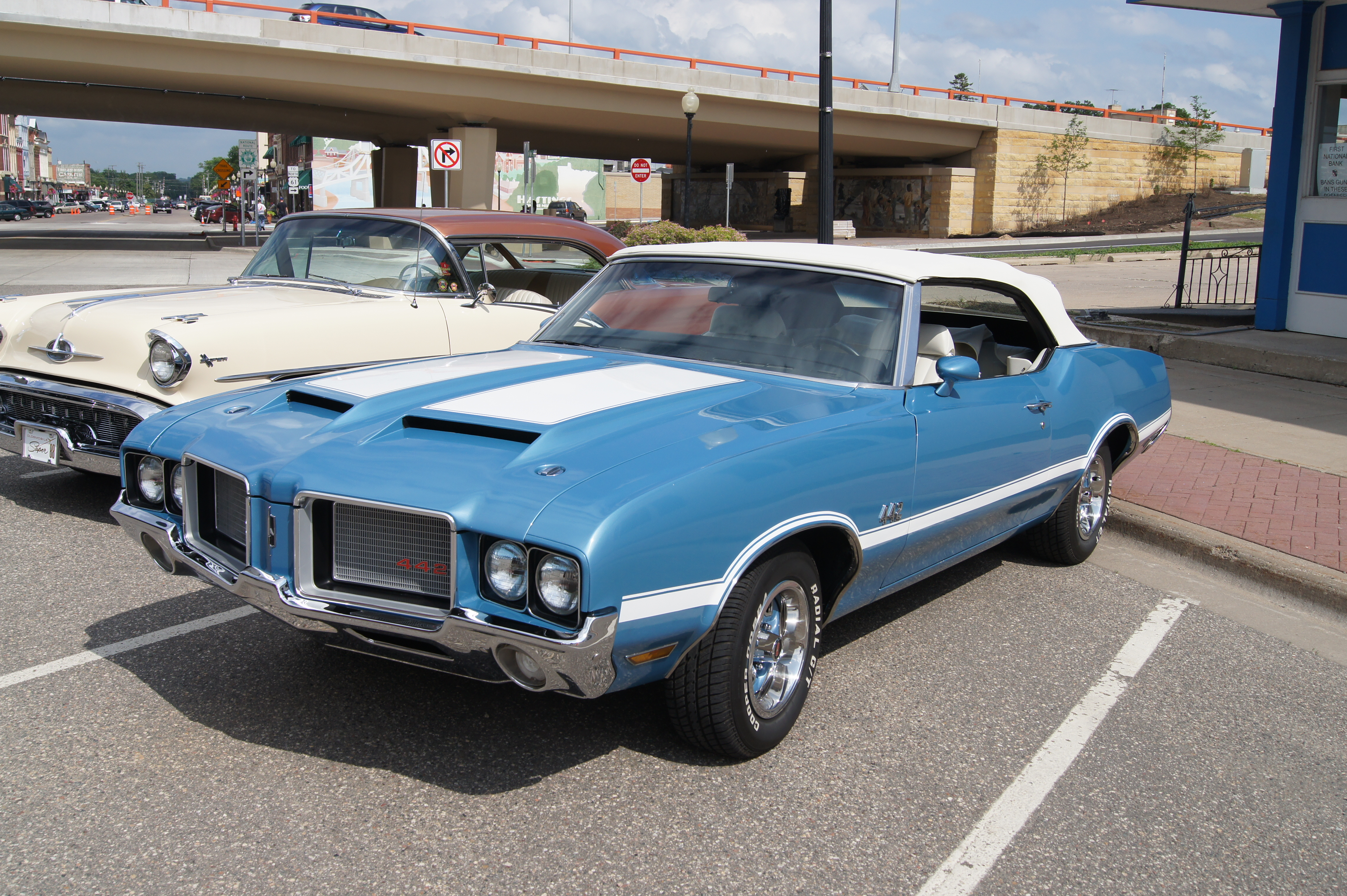 9th Annual Saturday Night Cruise-In June 28,2014 Hastings, Minnesota Participants said attendance was down quite a bit due to forecasts of rain and Thunderstorms. The meteorologists were right. An hour into the event, rain began to fall. For More of My Car Pictures click on the link below